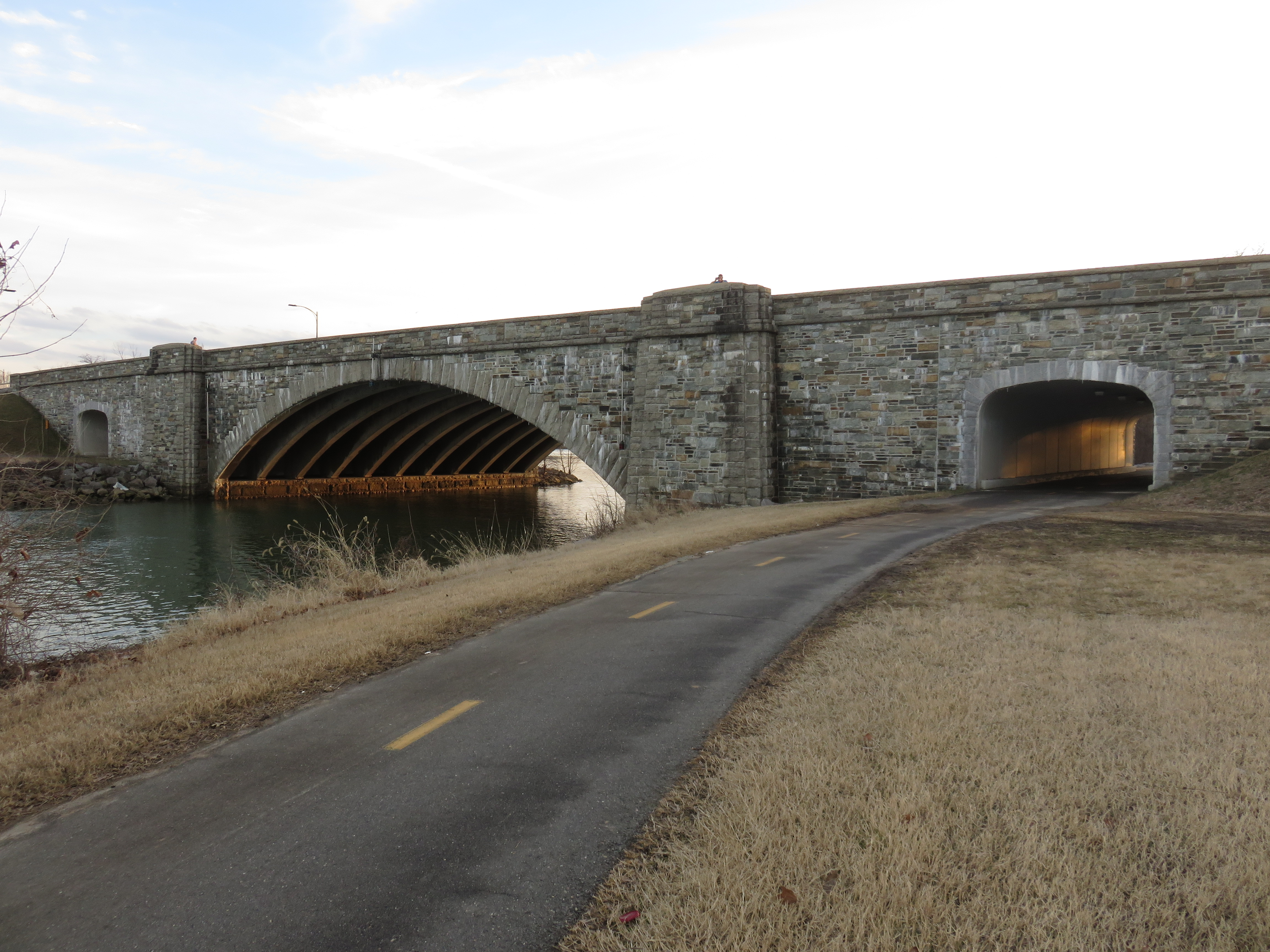 South crossing of the George Washington Memorial Parkway over the Boundary Channel in 2019